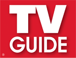 TV Guide logo.